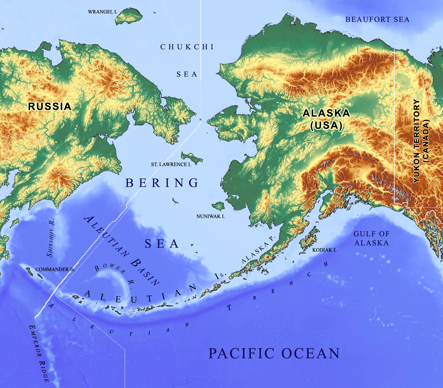 Physical geography of Alaska and the Bering Sea with emphasis on oceanographic features of the Bering Sea and the Commander-Aleutian island arc.